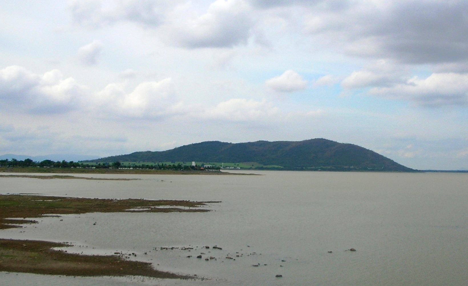 Khao kok tako mountain seen north of Pa Sak Cholasit Dam